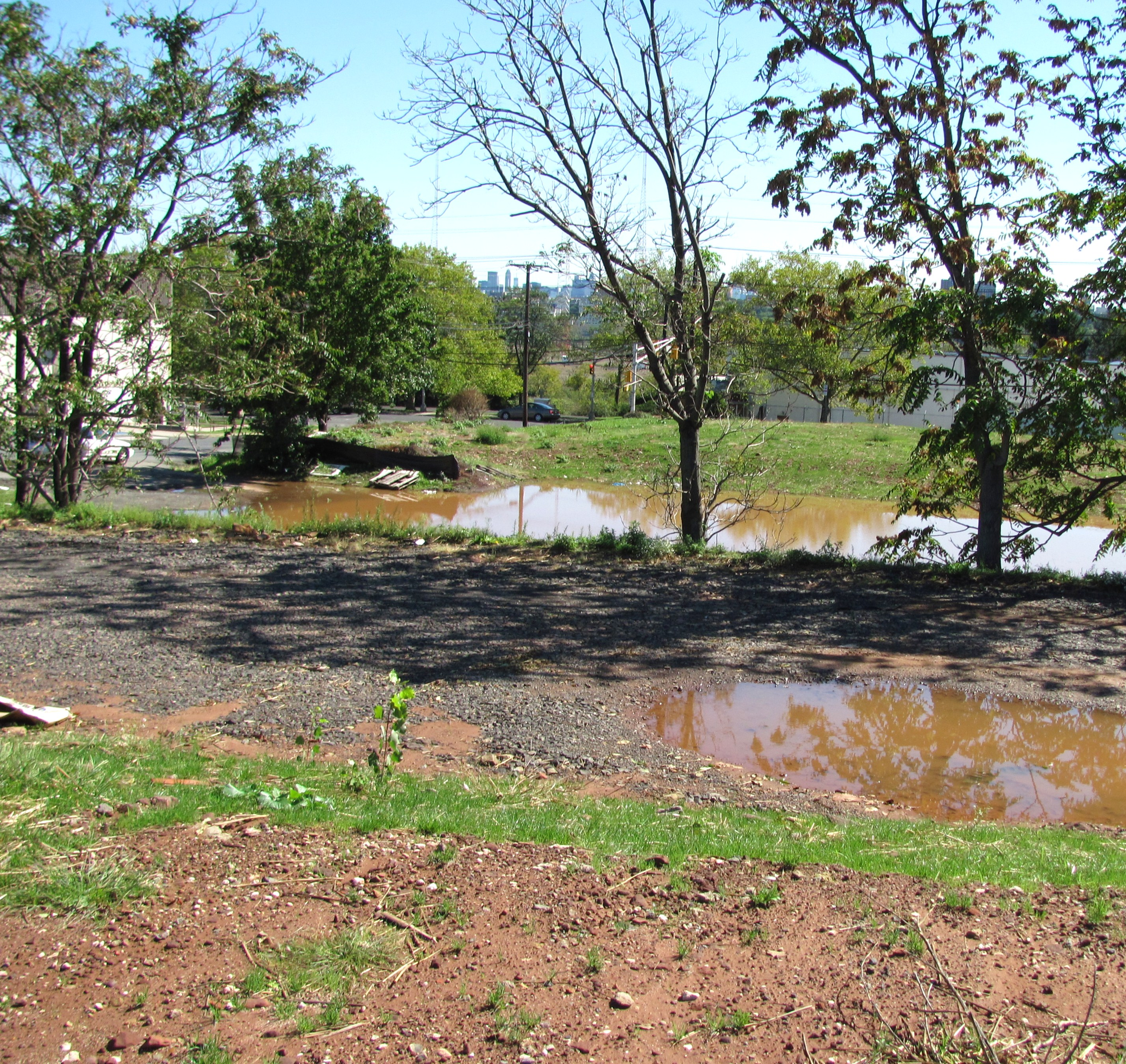 View from the Able I. Smith Cemetery in Secaucus, NJ.